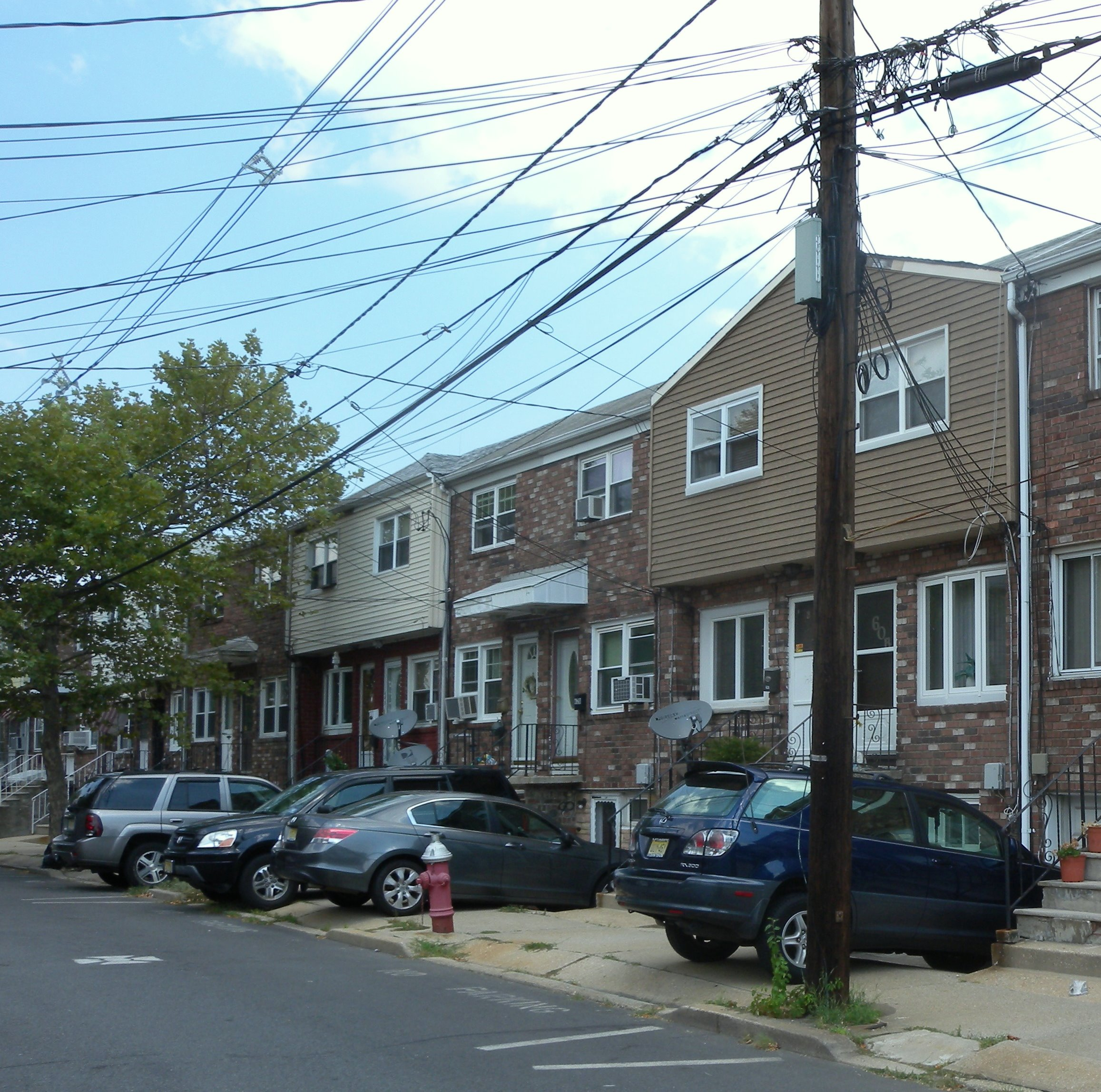 Looking northeast at sidewalk blocked by parked cars in Suburbia, on a mostly cloudy midday.